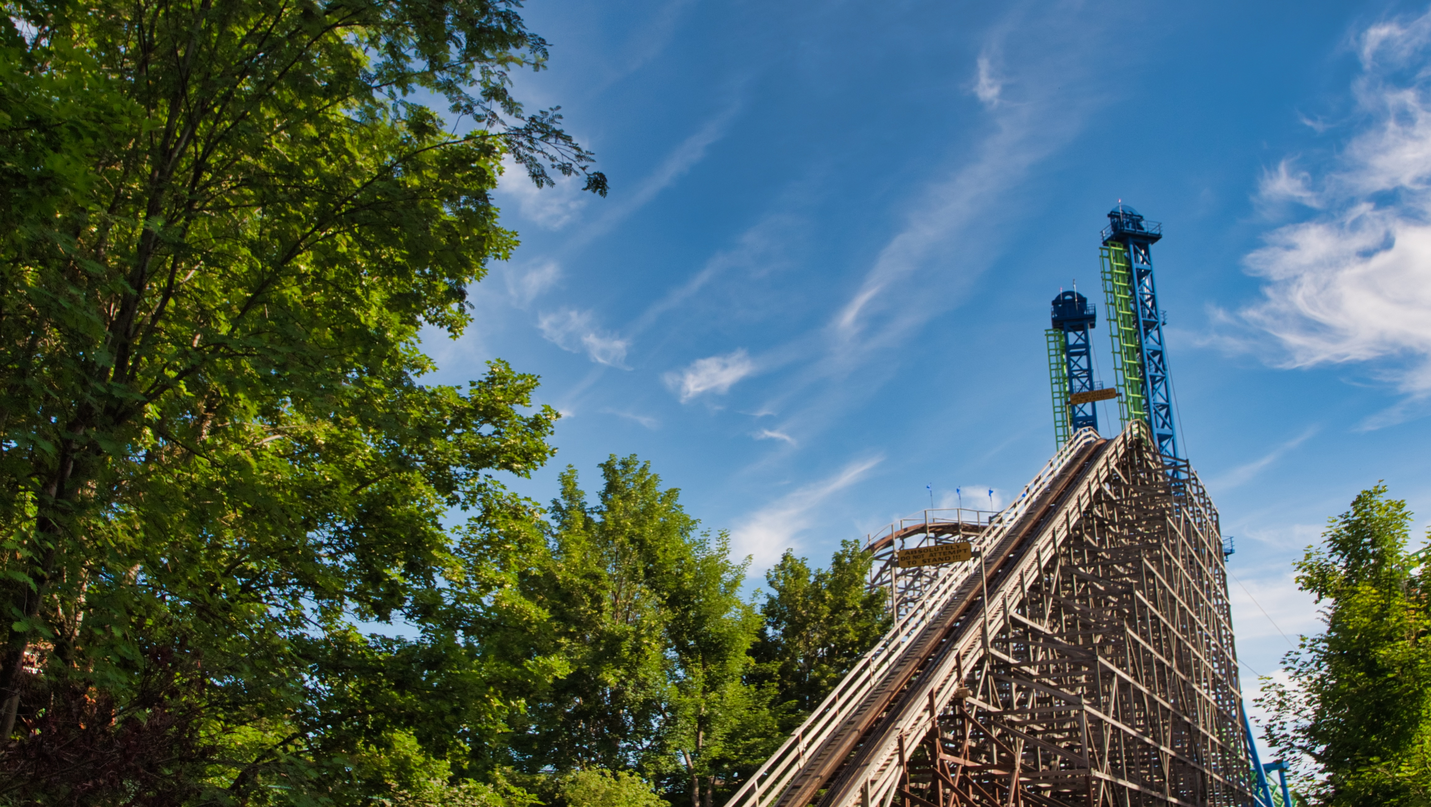 A picture of the Silverwood Theme Park Timber Terror and Aftershock Roller Coasters on a sunny day against a blue sky.